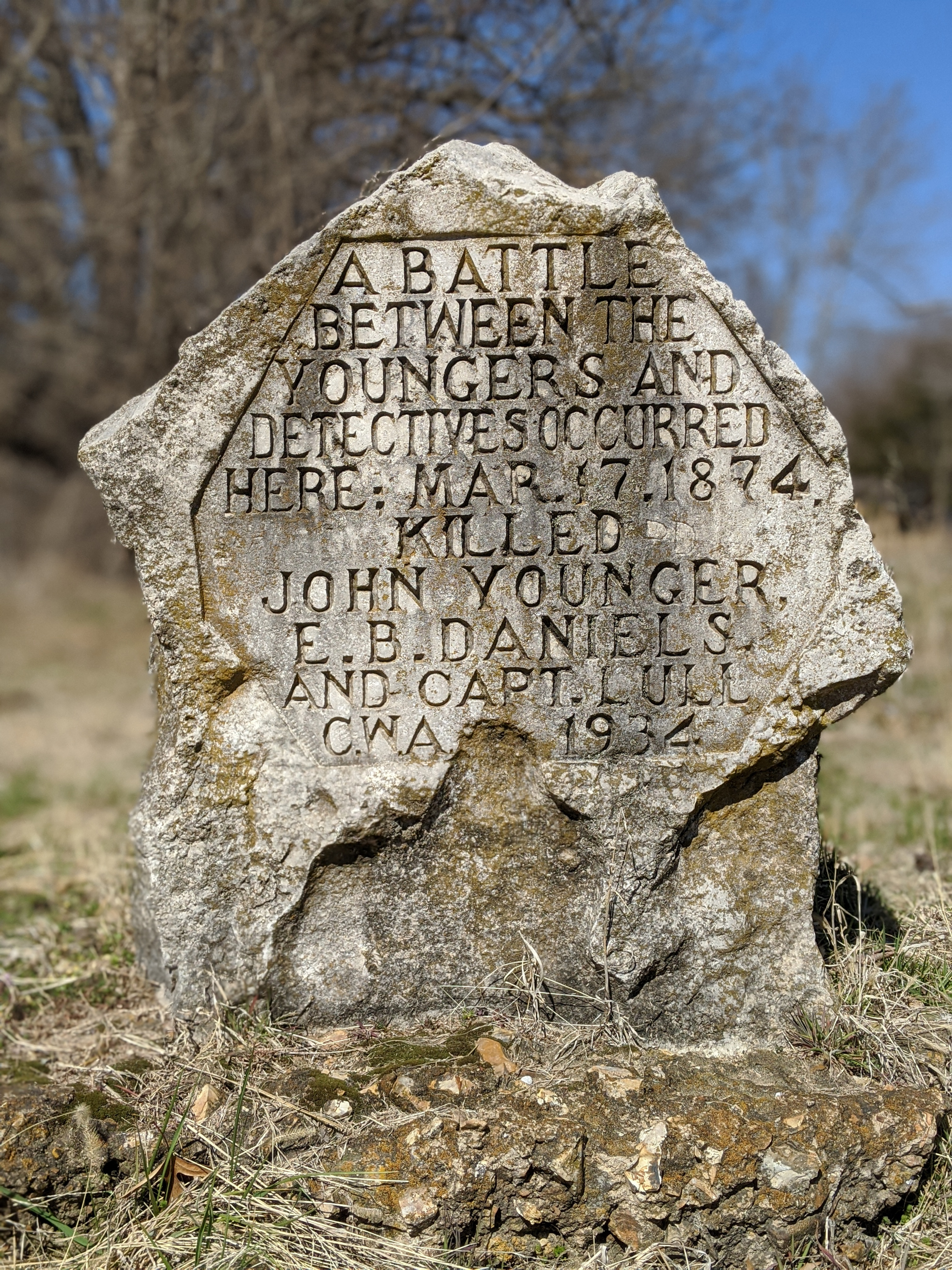 Battle of Roscoe site historical marker.